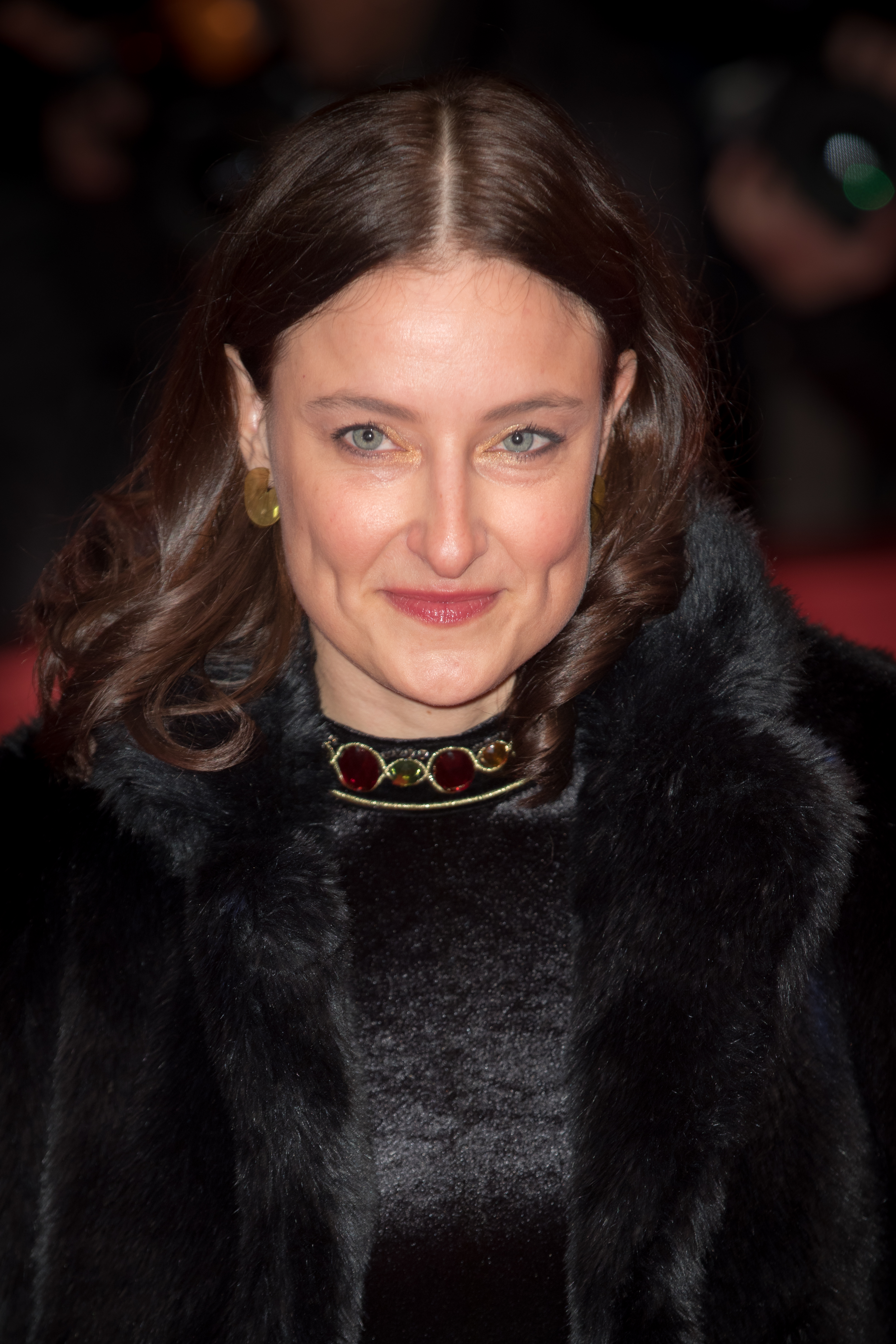 Adele Romanski at the opening ceremenony of the Berlinale 2018